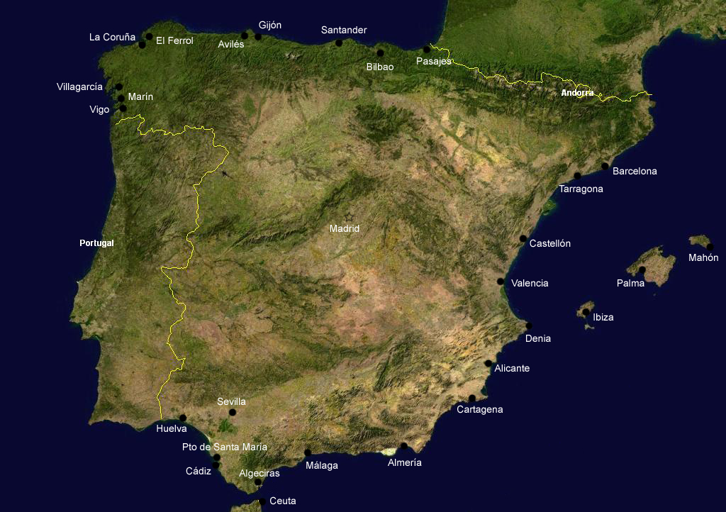 Major Seaports of Spain